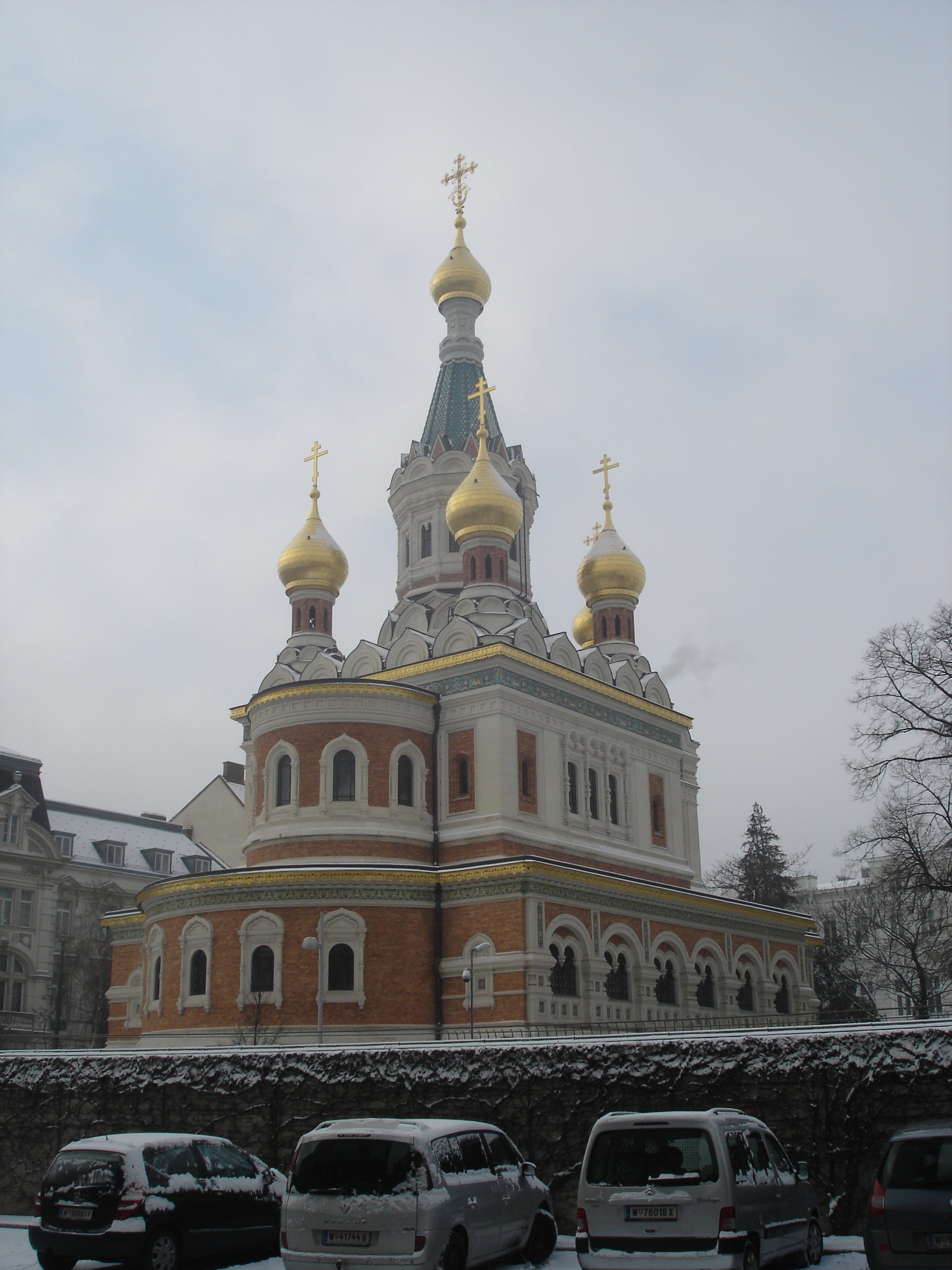 Vienna's Russian Orthodox cathedral in the snow